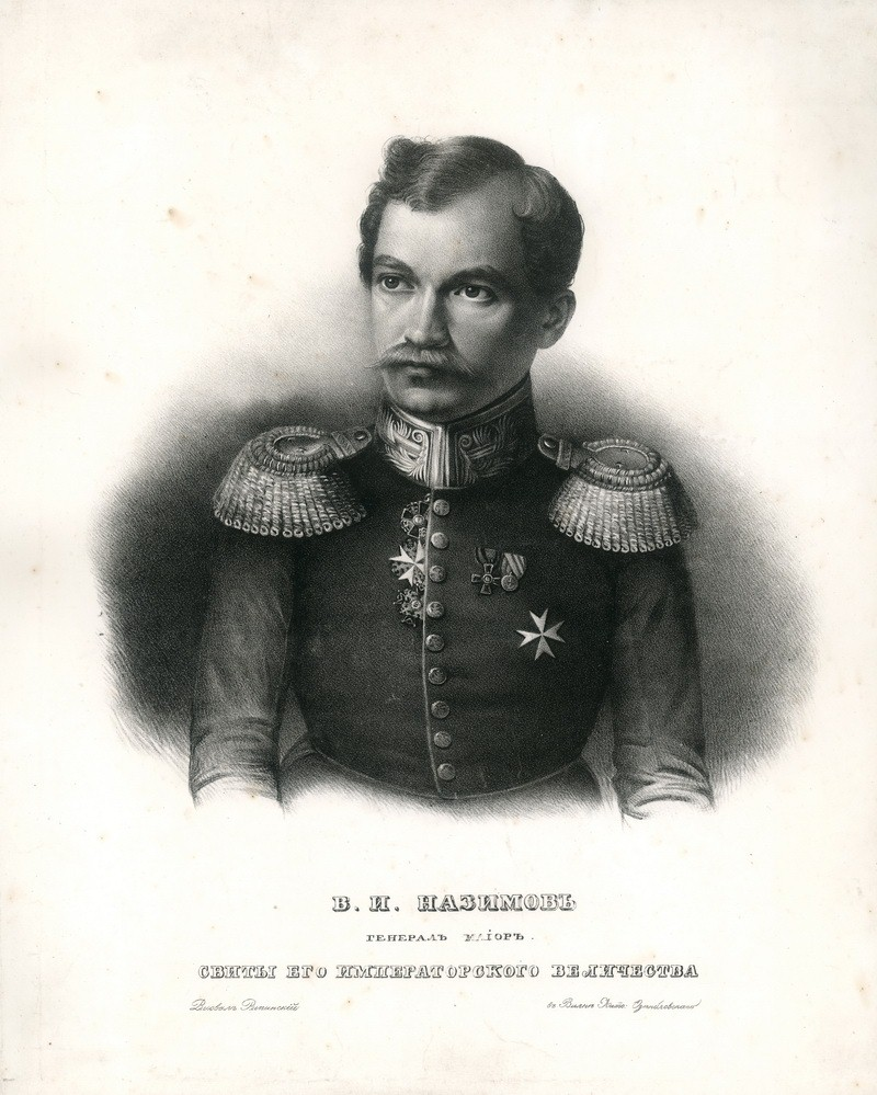 Ripinski Karol. Portrait of Vladimir Nazimov. Lithography, National Museum of Lithuania